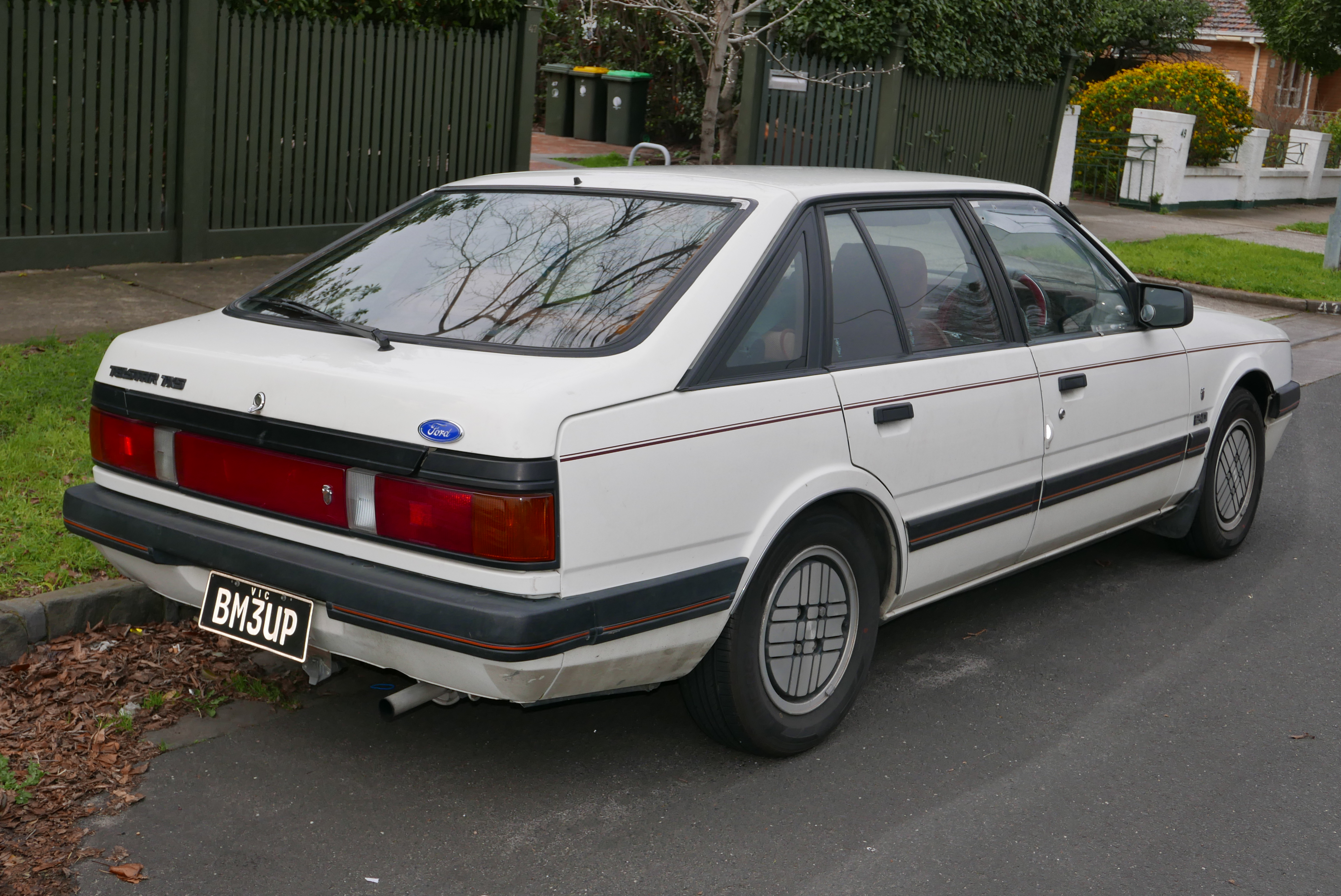 1983 Ford Telstar TX5 (AR) Ghia hatchback. Photographed in Coburg, Victoria, Australia. Vehicle registration enquiry results Jurisdiction Victoria Registration BM3UP Chassis code UG8HBY89060B Engine code UG8HBY89060B Compliance date 1983-01 Year of manufacture 1983